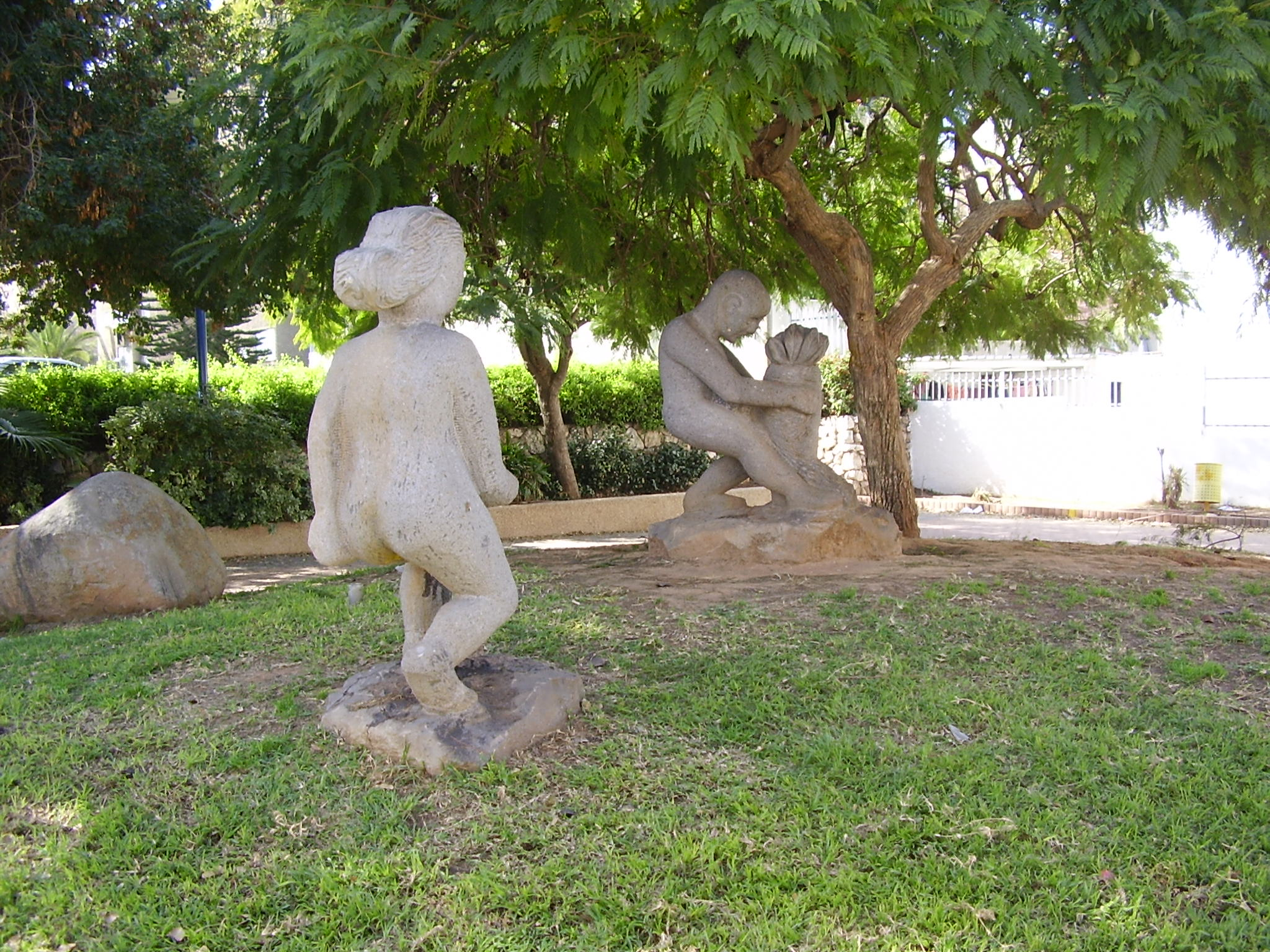 Eliezer and the carrot garden in Holon